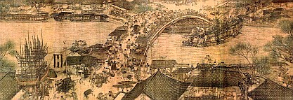 Detail from Along the River During the Qingming Festival by Zhang Zeduan, original painting at the Palace Museum, Beijing.